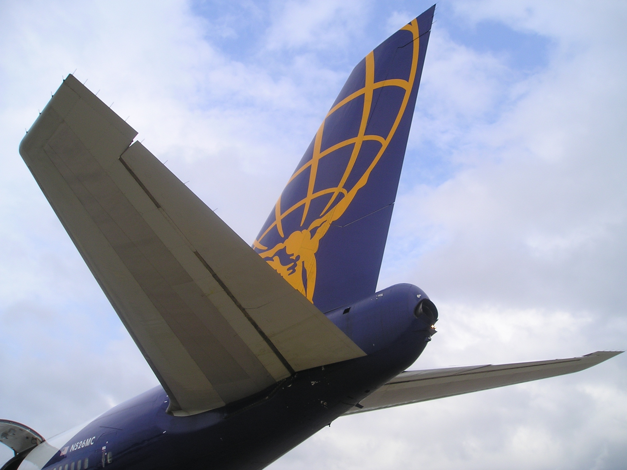 Boeing 747-200 Aircraft tail. We can see the exhausting pipe of the Auxiliary Power Unit (APU).